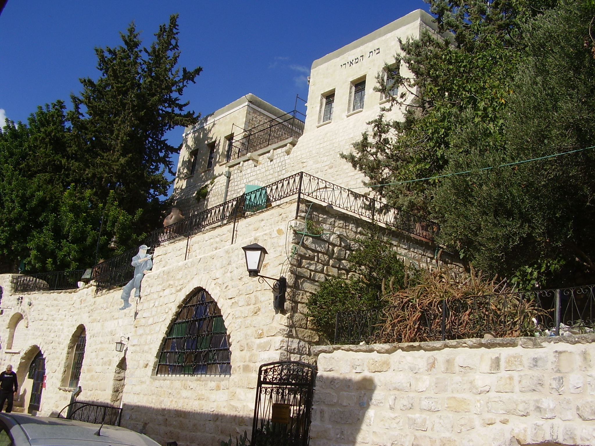 hameiri museum in safed